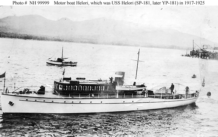 Motorboat Helori in a Pacific Northwest harbor, prior to her United States Navy service as patrol vessel USS Helori (SP-181)